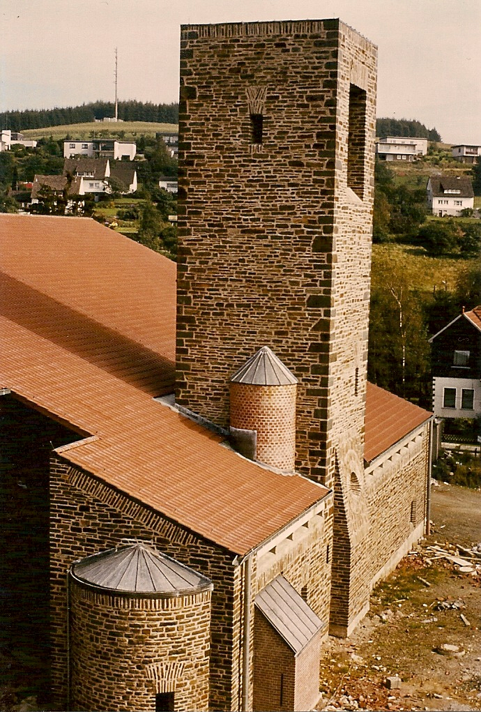 Catholic church and community-center (West-Germany)